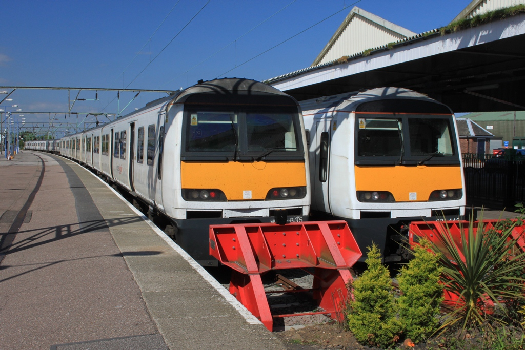 Greater Anglia's 321335 and 321443 stabled at Clacton-on-Sea on a quiet Sunday, ready for Monday morning's rush.